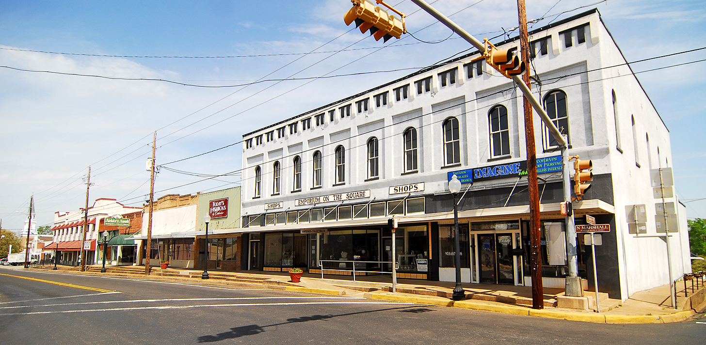 historic downtown Henderson